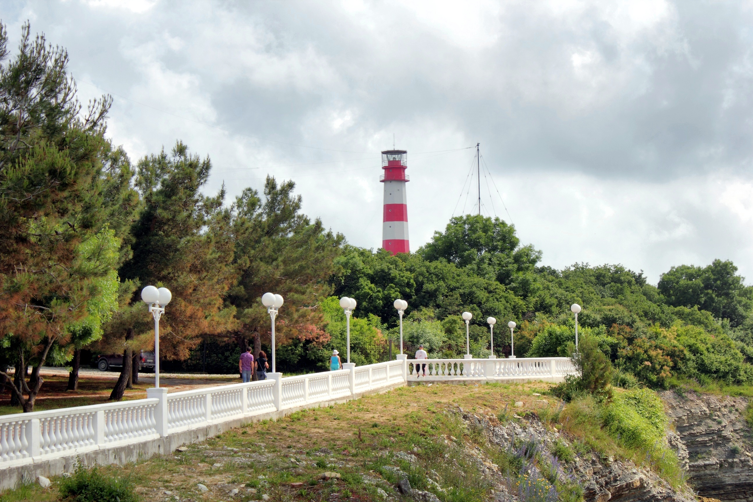 Gelendzhik. Lighthouse